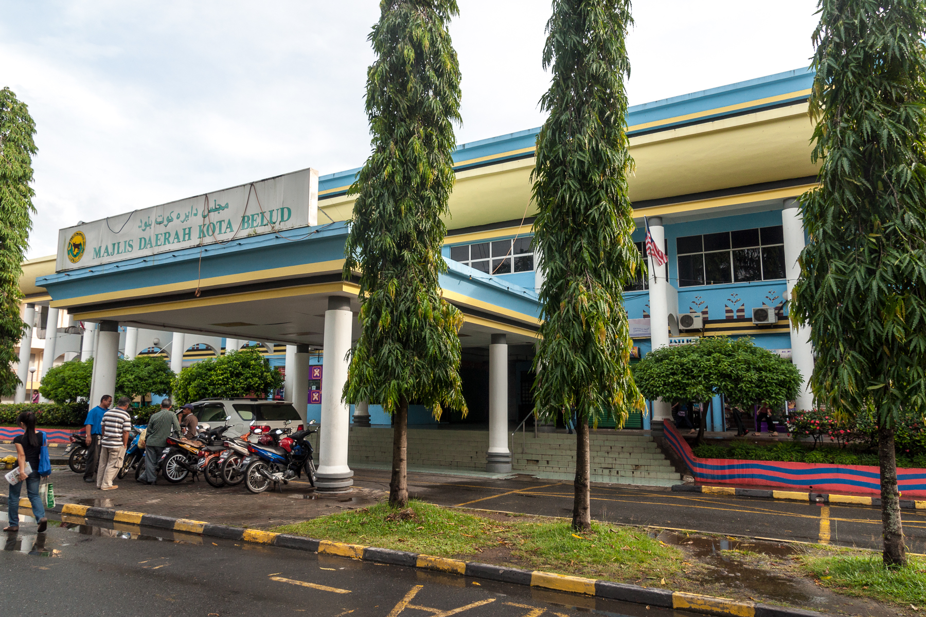 Kota Belud, Sabah: District Council (Majlis Daerah Kota Belud)